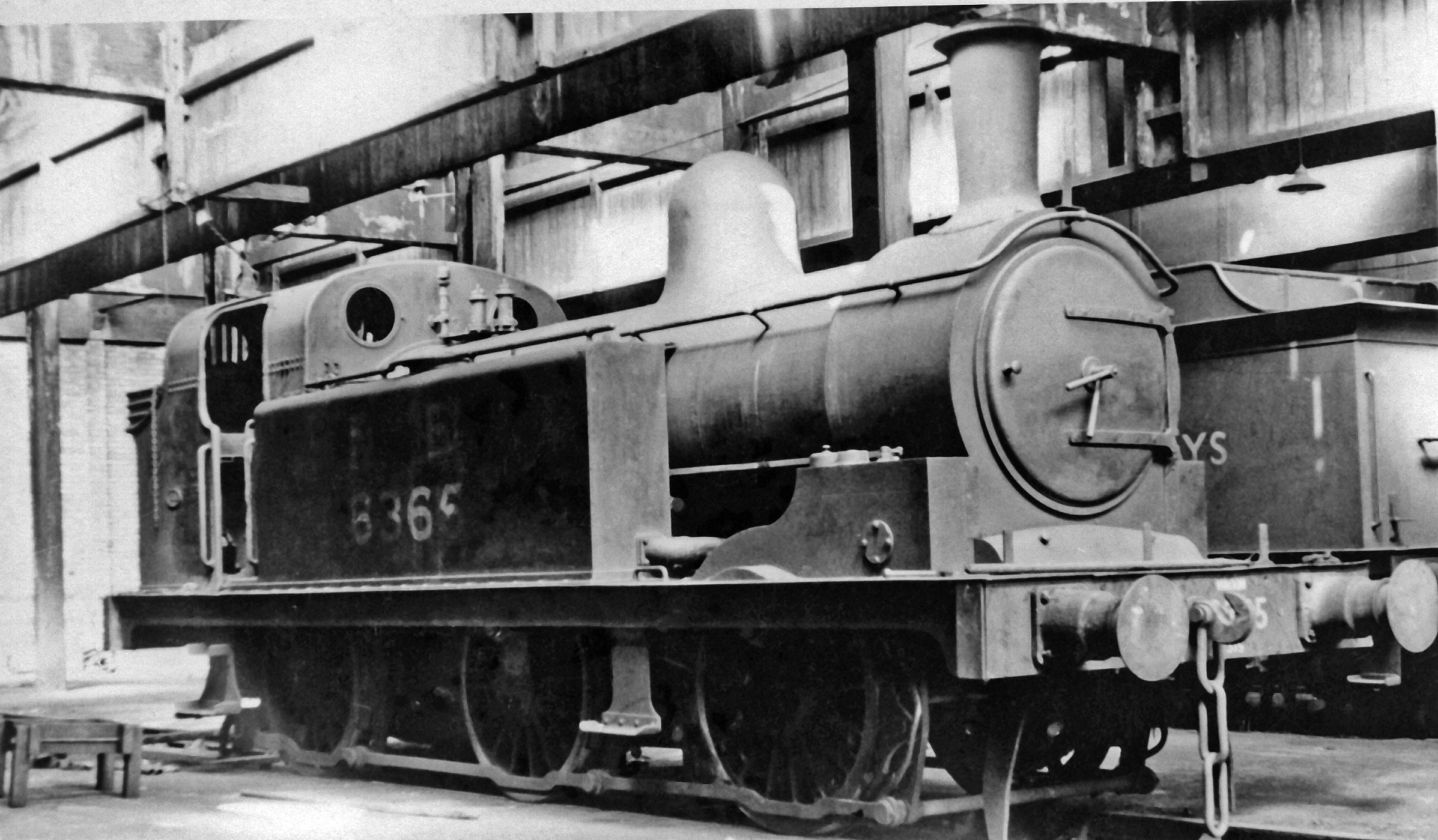 Ex-Hull & Barnsley 0-6-0T inside Walton-on-the Hill Engine Shed. (Like many Sheds in areas subjected to bombing during the War, there was little glass in the roof, so 'indoor' photography was possible without flash). This was a rare engine originating on the former H&B Railway, J75 0-6-0T No. 8365, which ended its career at the little-known Cheshire Lines (CLC) Depot at Walton-on-the-Hill on the long-gone Huskisson branch. In spite of its importance in servicing locomotives of freight trains for Huskisson and the other North Liverpool dockyard stations, which came and went far and wide - also Specials for the Grand National once a year, Walton had only a small allocation of engines for local work. In 1947 the allocation of 16 comprised:- 2 4-4-0, 7 0-6-0, 5 0-6-2T and 2 0-6-0T. Although Walton Yard lasted until 1968 and Huskisson Goods until 1978, Walton Shed was closed in December 1963, all CLC lines and depots having been in the London Midland Region since Nationalisation in 1948.